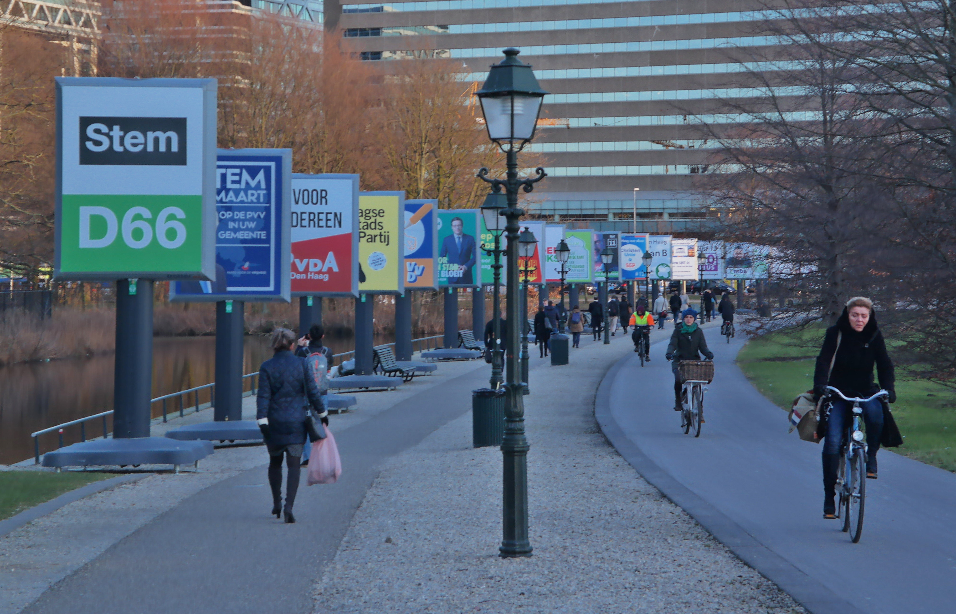 Reclameborden voor de Haagse partijen die meedoen aan de gemeenteraadsverkiezingen 2018.